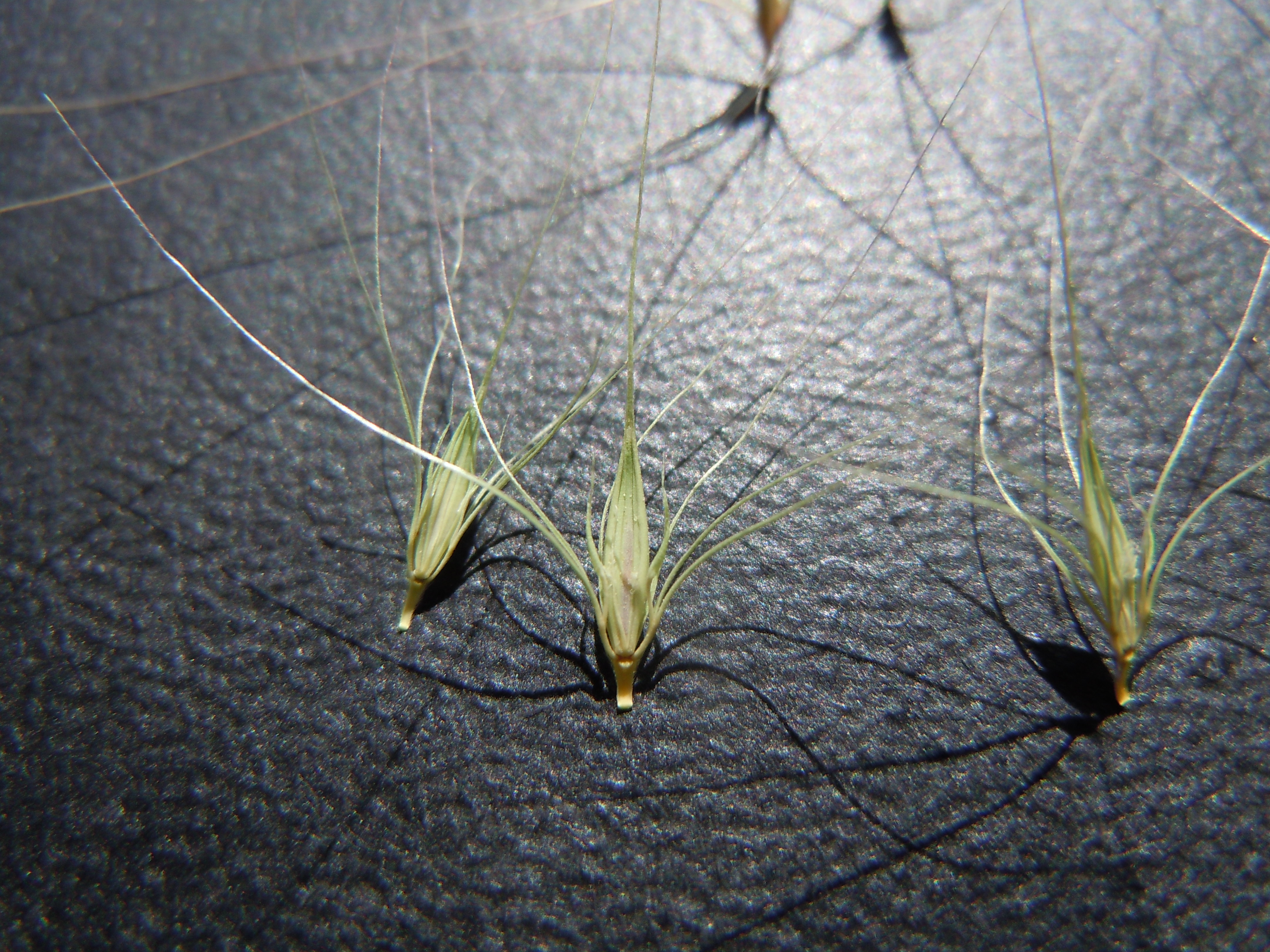 The diaspore of Hordeum brachyantherum (greenish) has shorter awns than that of Hordeum jubatum (brownish).